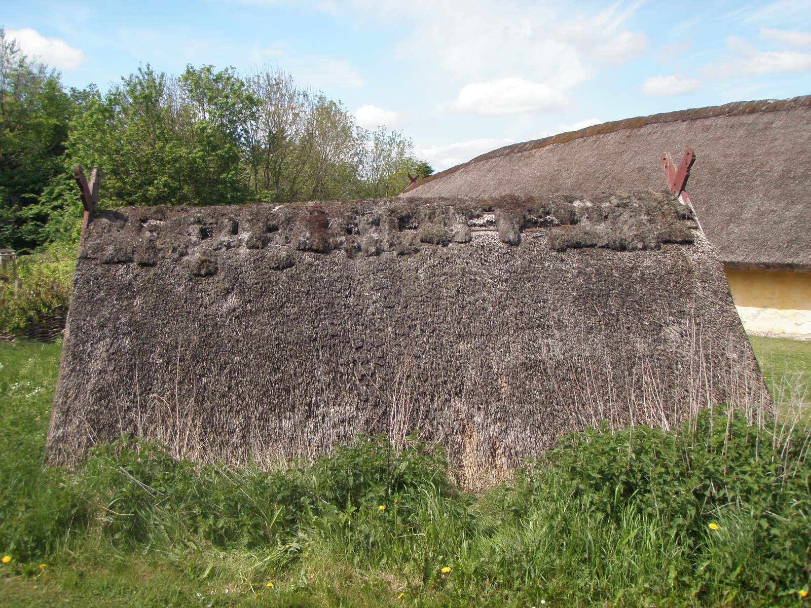 Pit-house (grophus in Swedish) were common in the Scandinavian settlements during the Late Iron Age and especially during the Viking era. These were used mostly for crafts of all kinds, such as metal, ceramics and textiles.